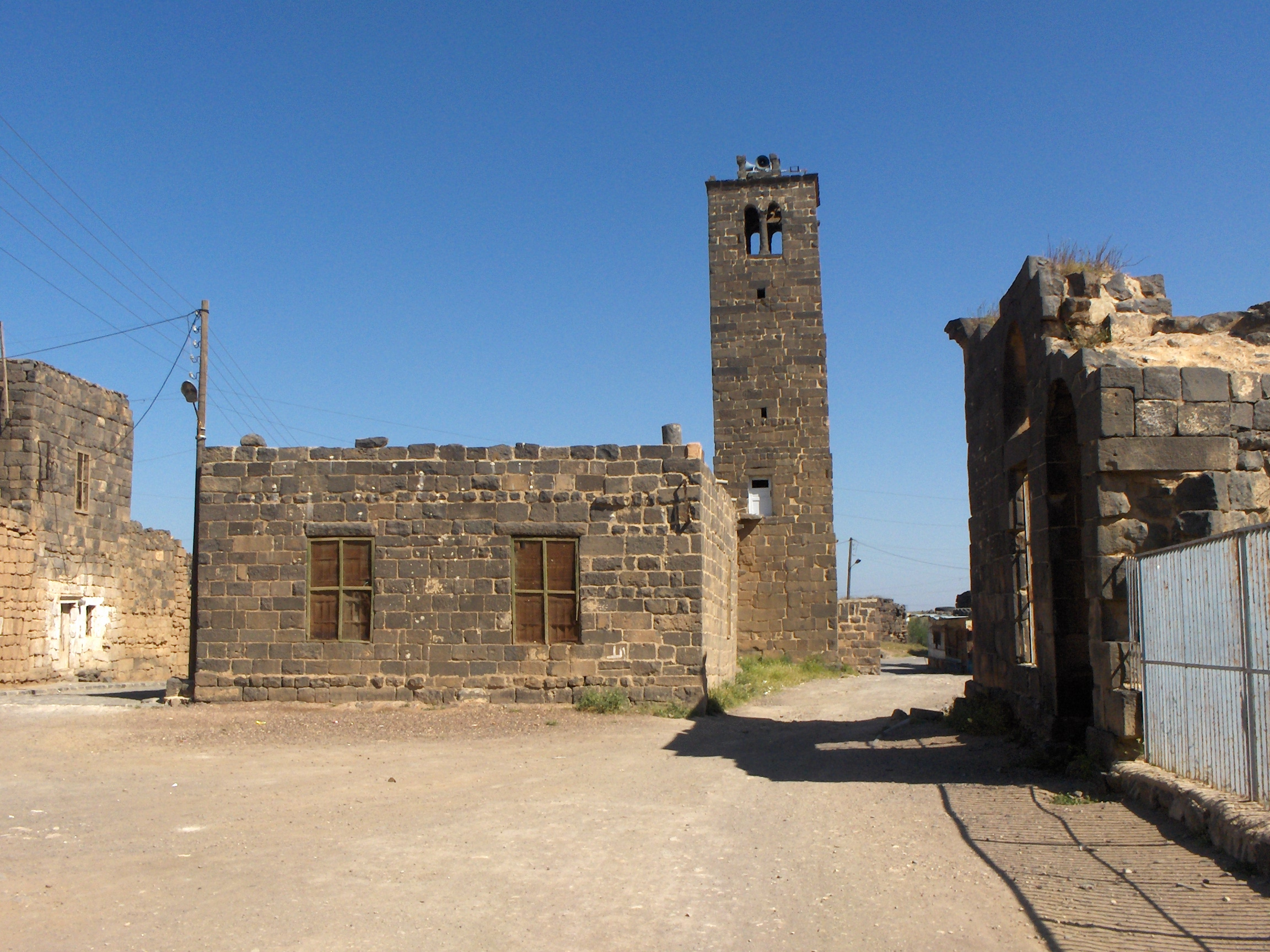 Bosra (Siria), the Minaret of the Mabrak an-Naqah Mosque (Fatima Mosque). Maybe the most ancient survived minaret (720-21).